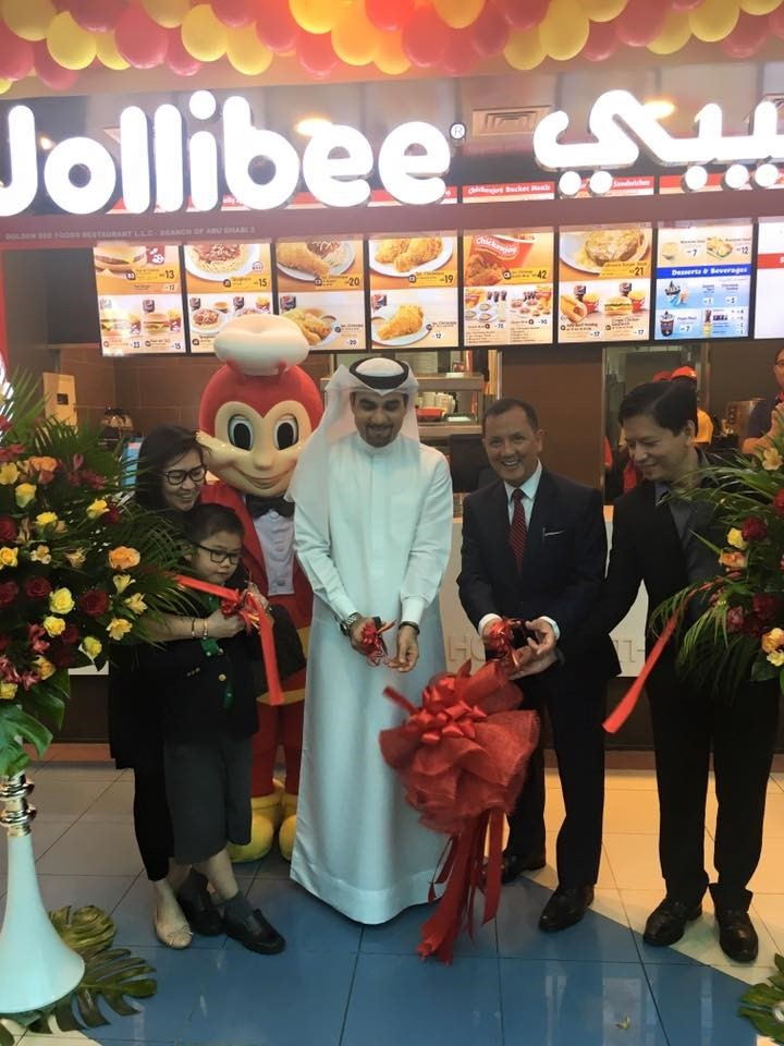 Philippine Ambassador to the United Arab Emirates Constancio R. Vingno, Jr. (right) leads the ribbon cutting ceremony of Jollibee’s first branch in Abu Dhabi. (DFA)